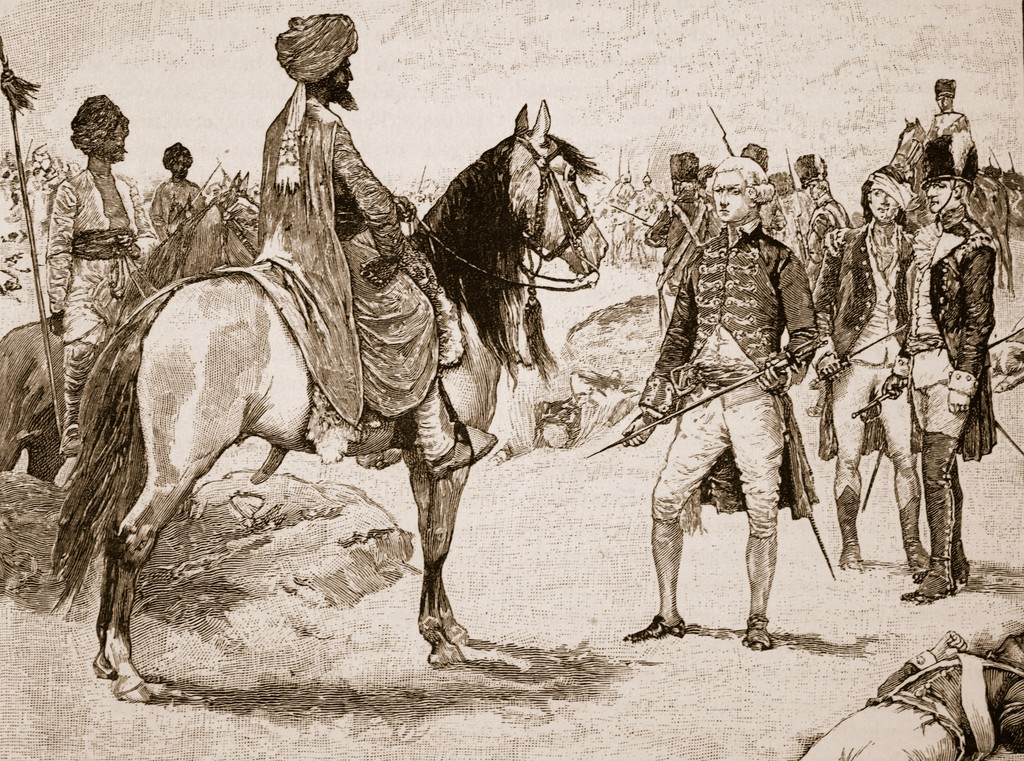 Surrender of Baillie to Hyder Ali, 1780, illustration from 'Cassell's Illustrated History of England' (20th century)